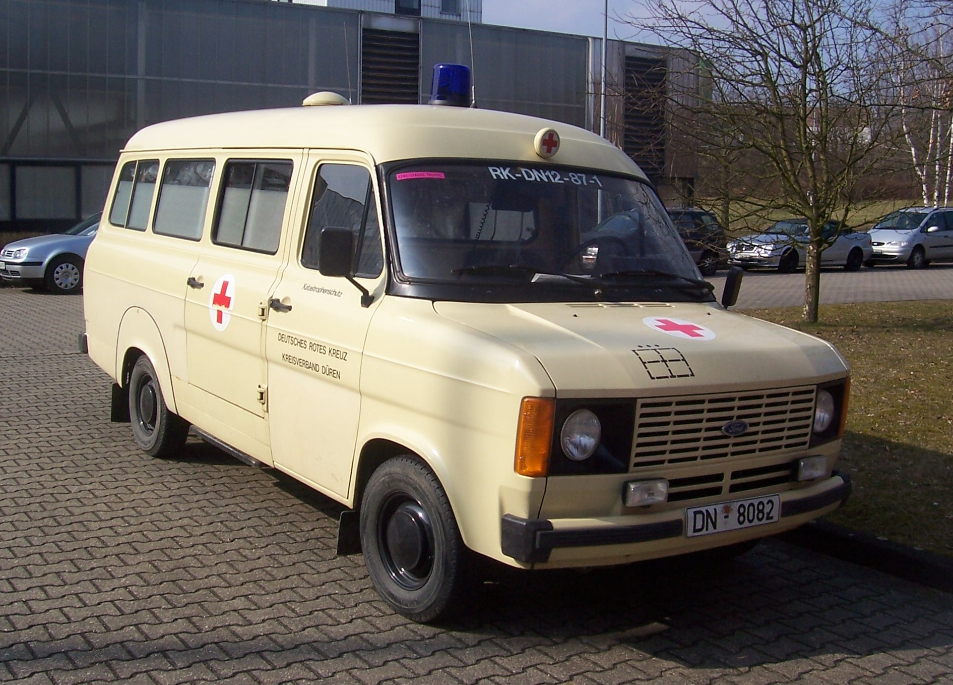 Ambulance of the German Red Cross